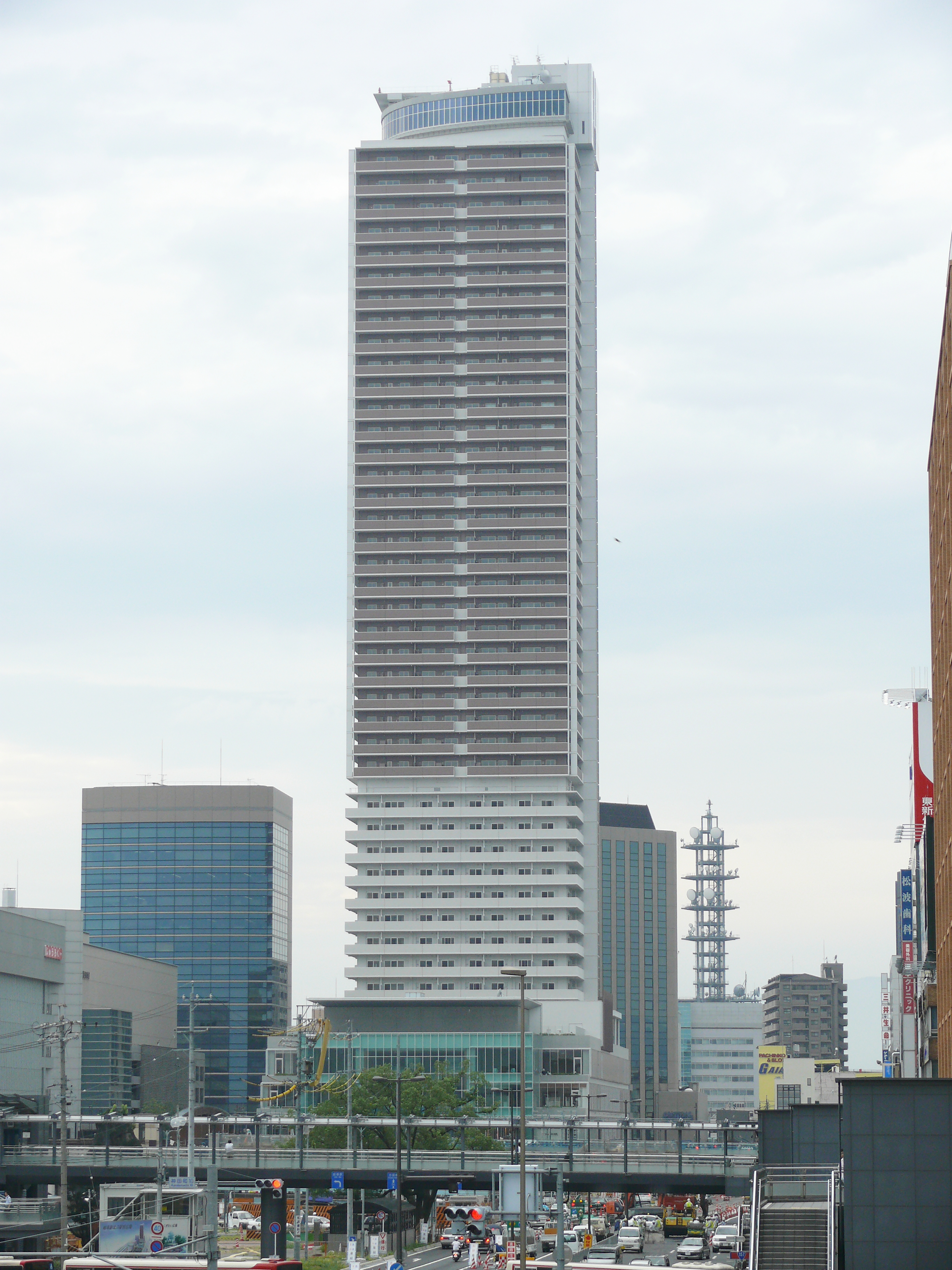 Gifu City Tower 43.